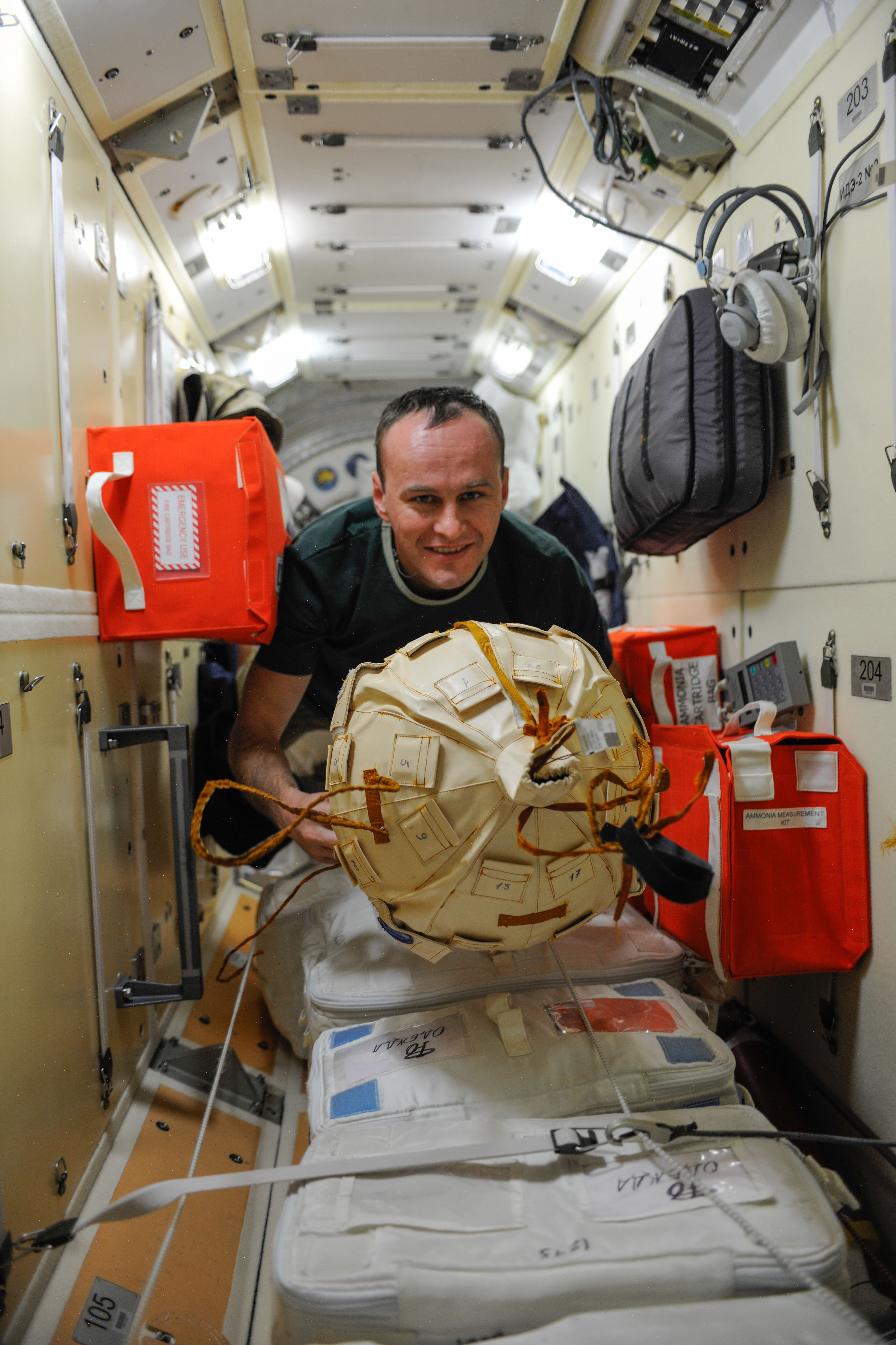 Russian cosmonaut Sergey Ryazanskiy, Expedition 37 flight engineer, moves cargo in the Zarya Functional Cargo Block (FGB) Rassvet module of the International Space Station.